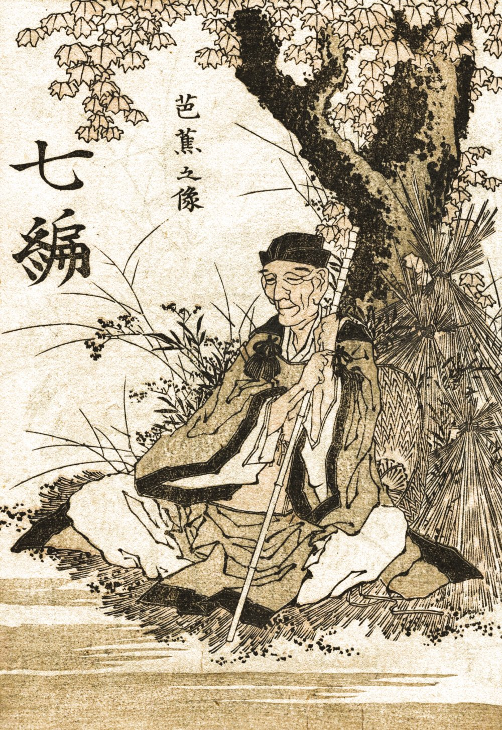 Portrait of Matsuo Basho